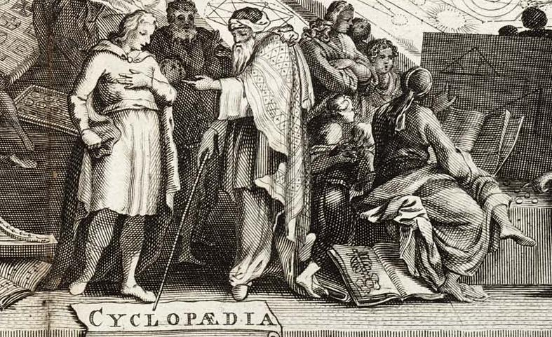 Crop of the engraving for Chambers' Cyclopedia